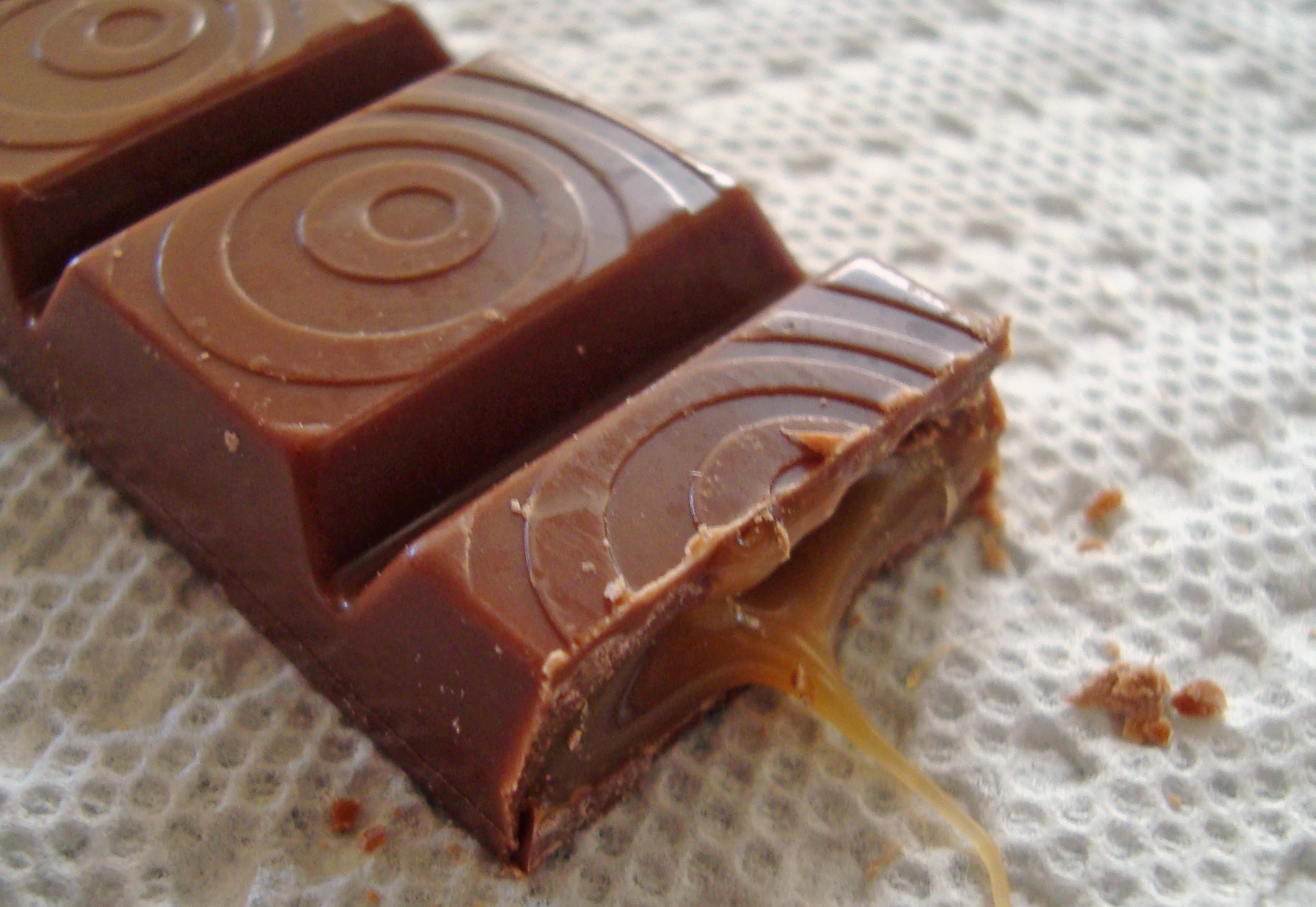 Close-up of a cut-open bar of Plopp, with soft toffee (i.e. caramel) coming out.